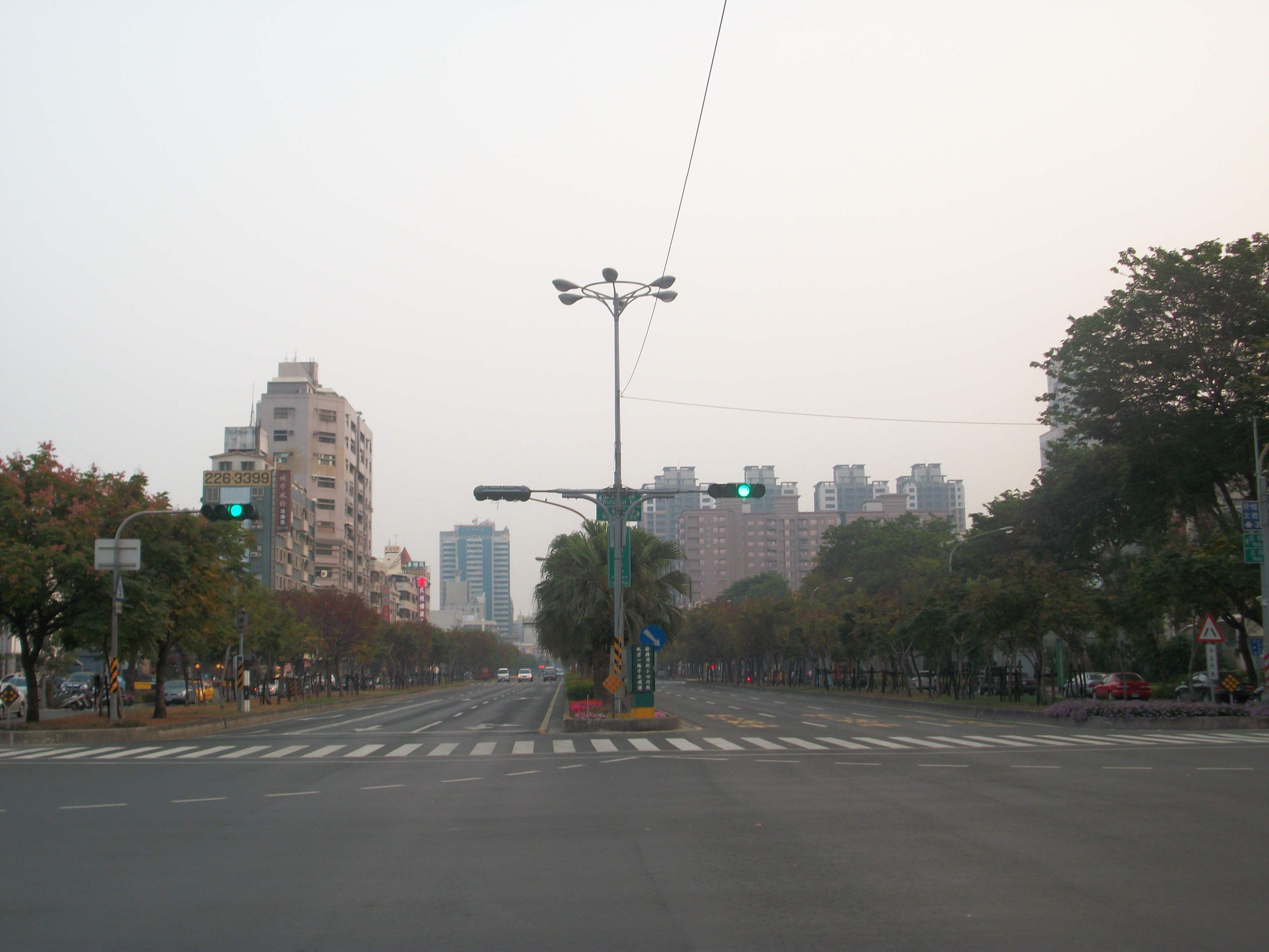 The picture shows the intersection of Mincheng 2nd Rd. in Kaohsiung City.